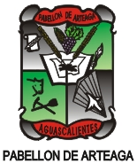 Coat of arms of Pabellon de Arteaga